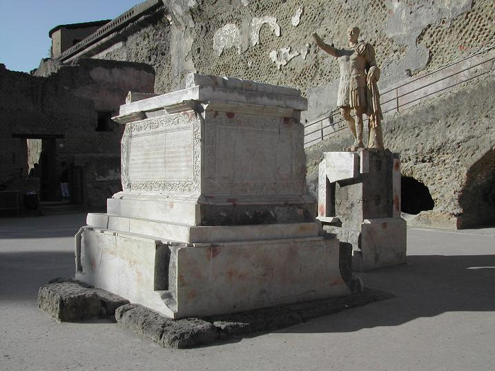 Statue of Marcus Nonius Balbus in Ercolano.